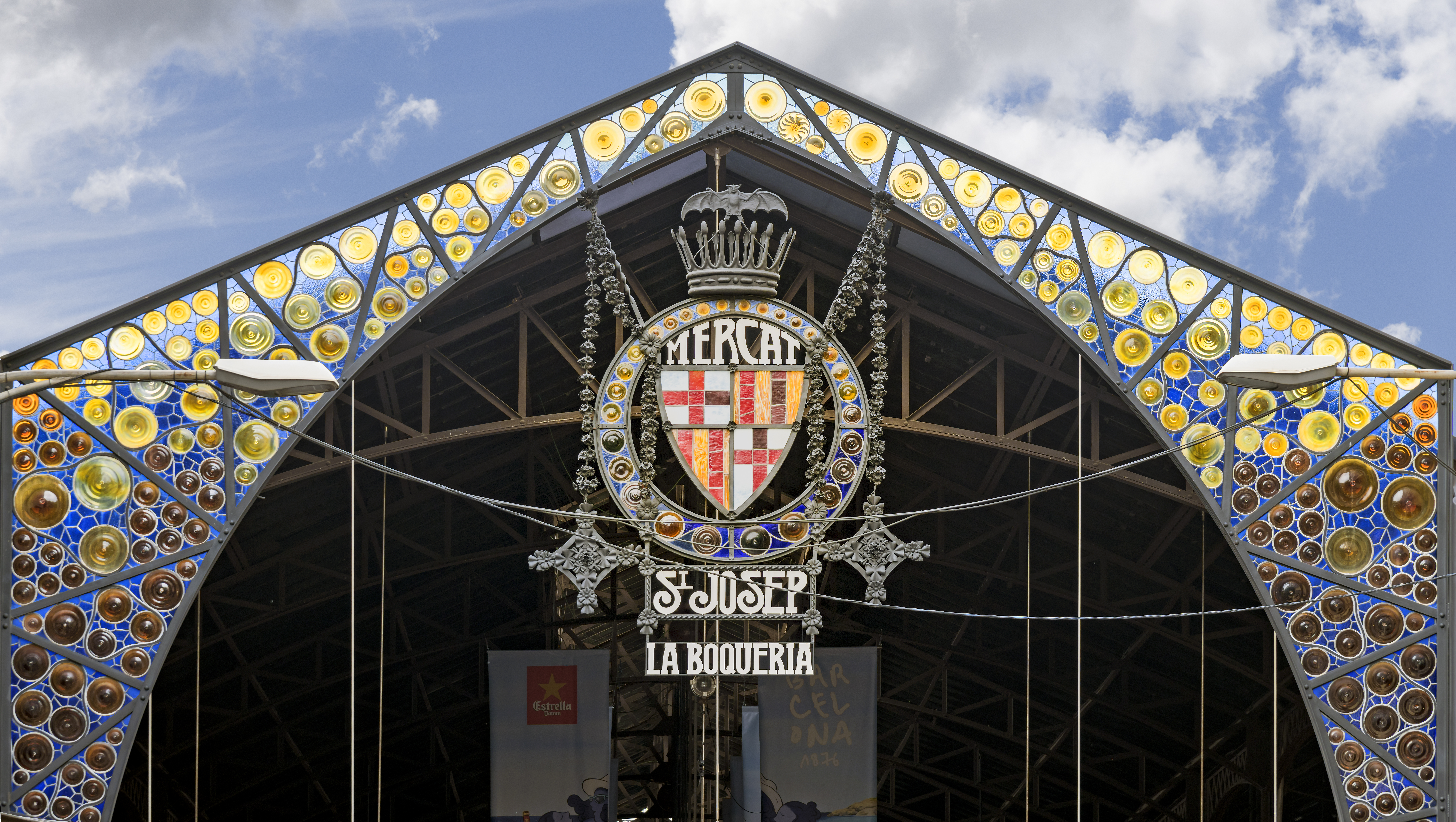 Mercat de Sant Josep (la Boqueria), on Les rambles in Barcelona.